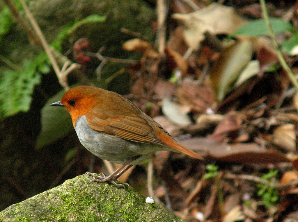 Japanese Robin